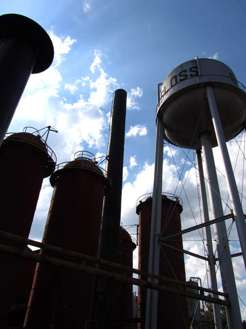 Birmingham Sloss Furnace in the Sun.